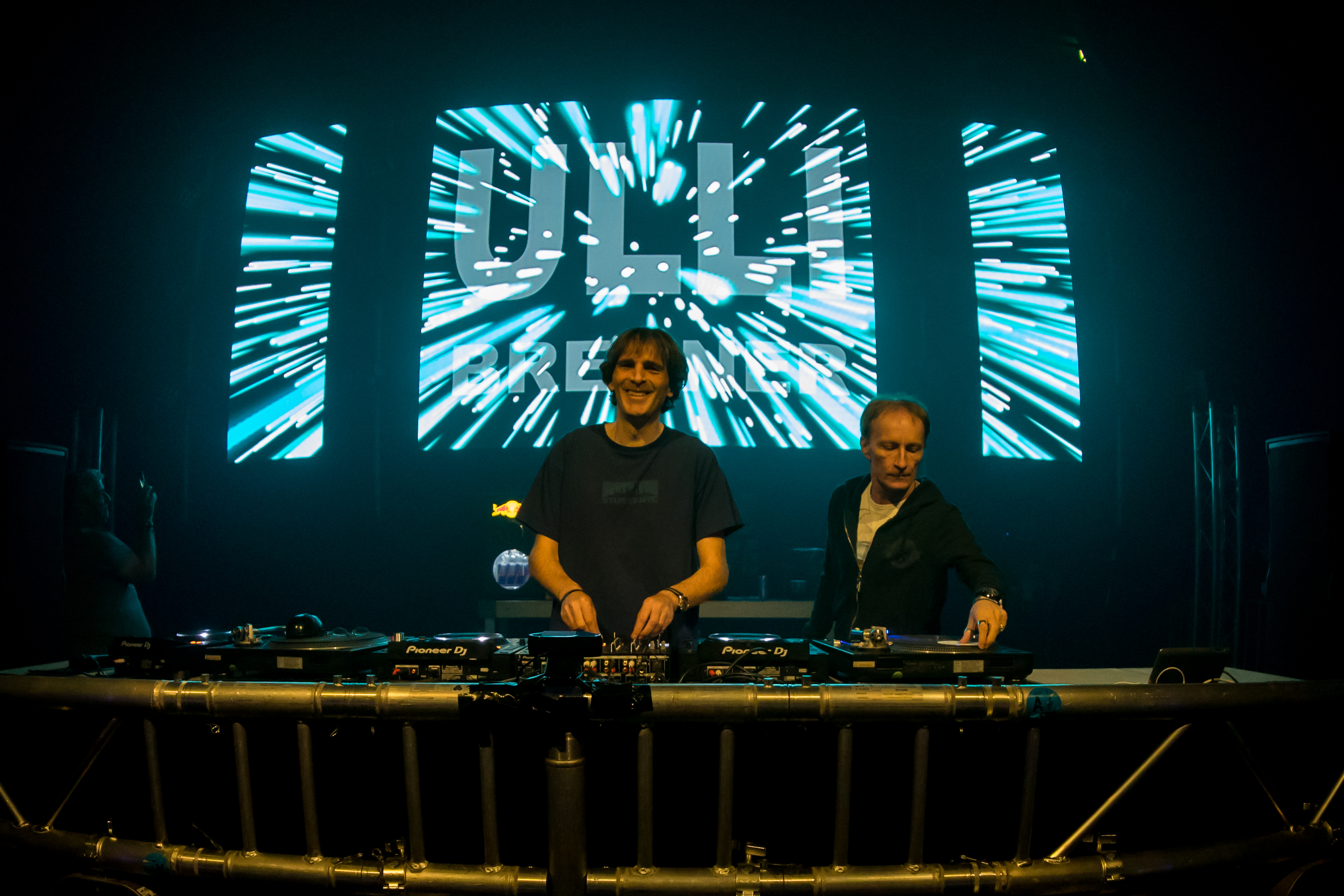 Ulli Brenner during Sunshine Live Retroactive - The 90s Rave at Maimarktclub, Mannheim, Baden-Württemberg, Germany on 2017-04-08, Photo: Sven Mandel